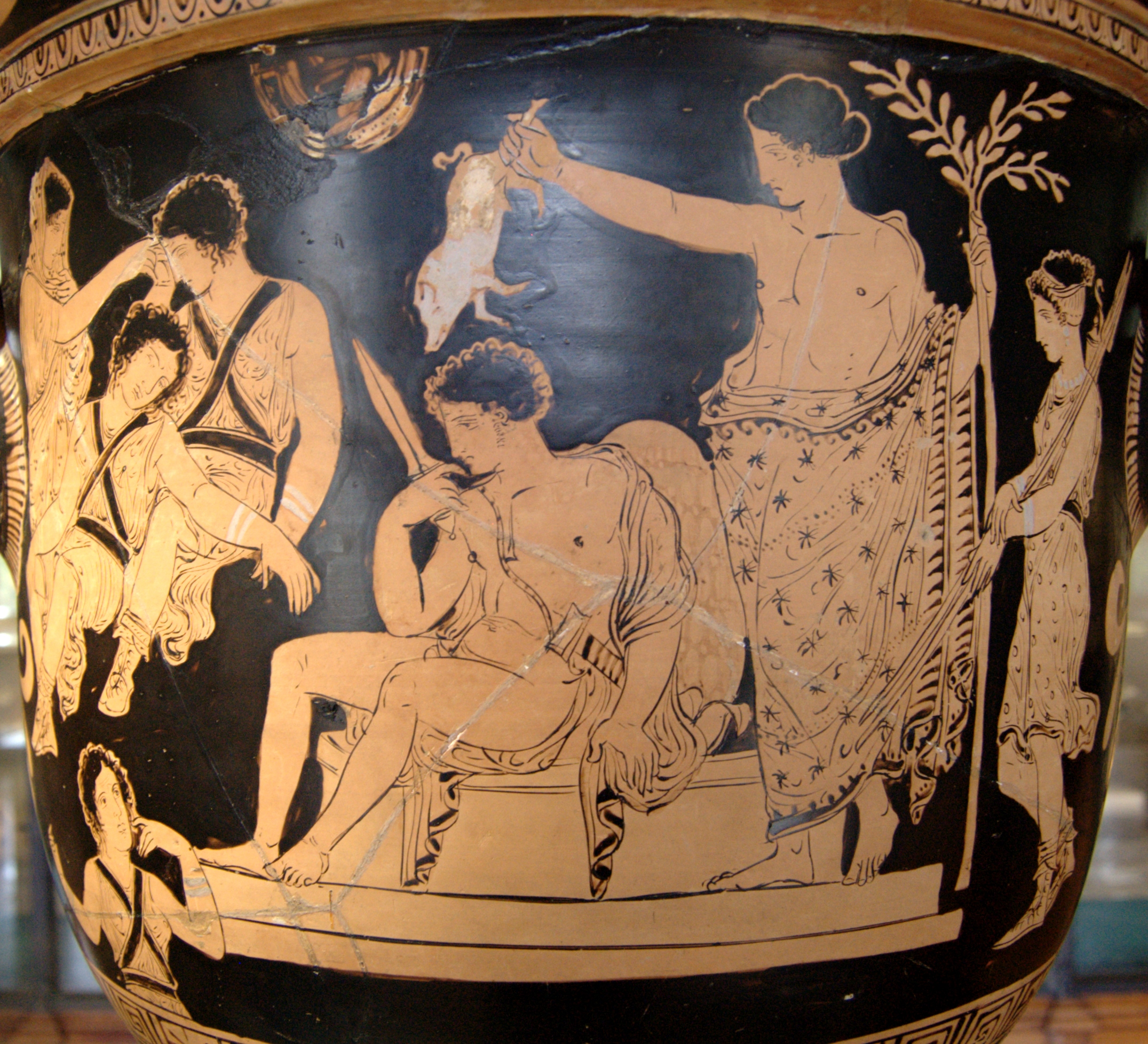 Orestes being purified by Apollo (Clytemnestra tryes to awake the sleeping Erinyes to the left). Side A from an Apulian red-figure bell-krater, 380–370 BC. From Armento?